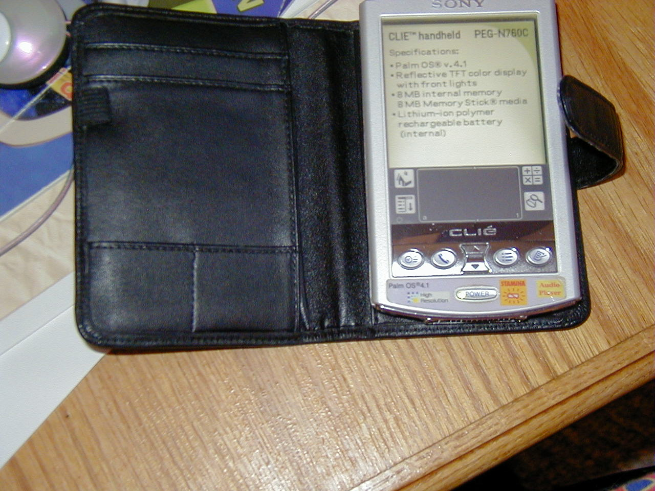 Sony CLIE N760C handheld computer (Palm OS 4.1), showing its built-in CLIE Demo program.